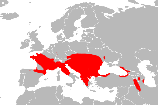 Zamenis longissimus range map.